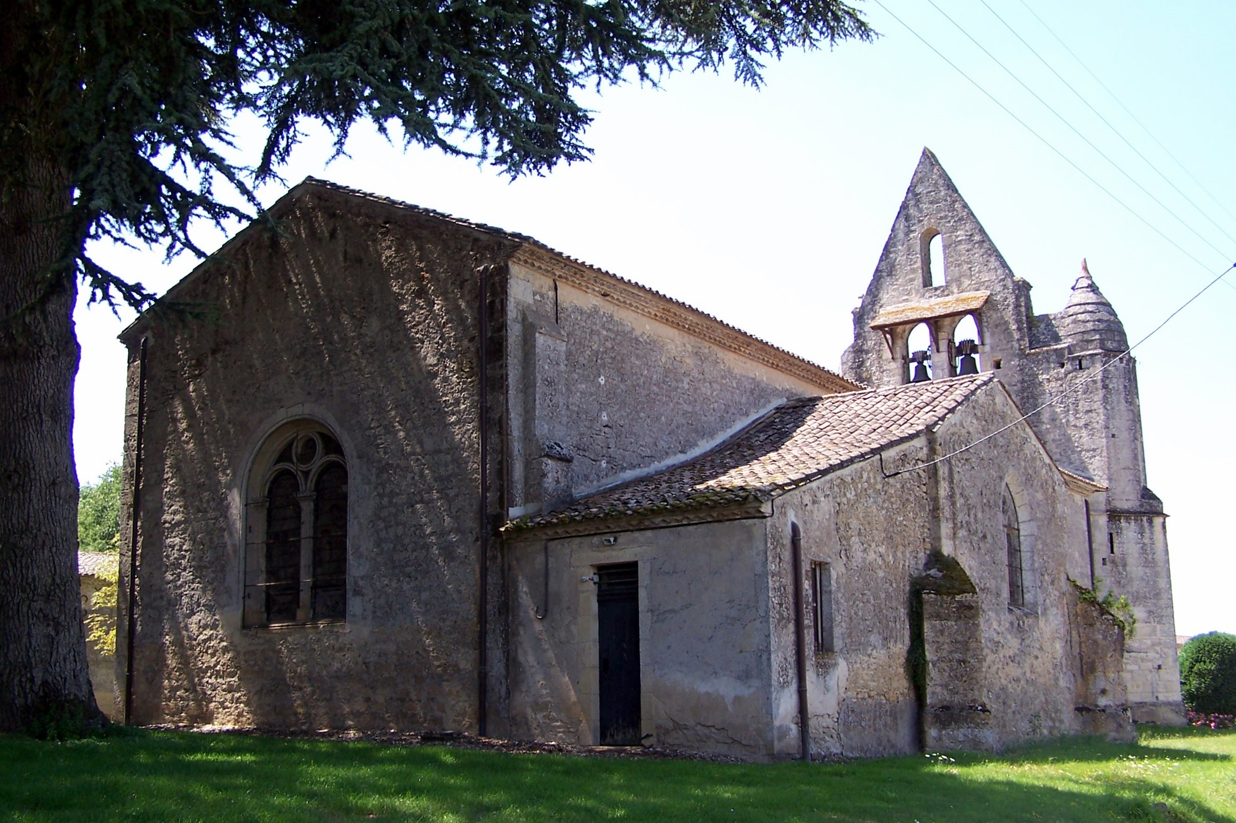 Chevet of the church of Fontet (Gironde, France)